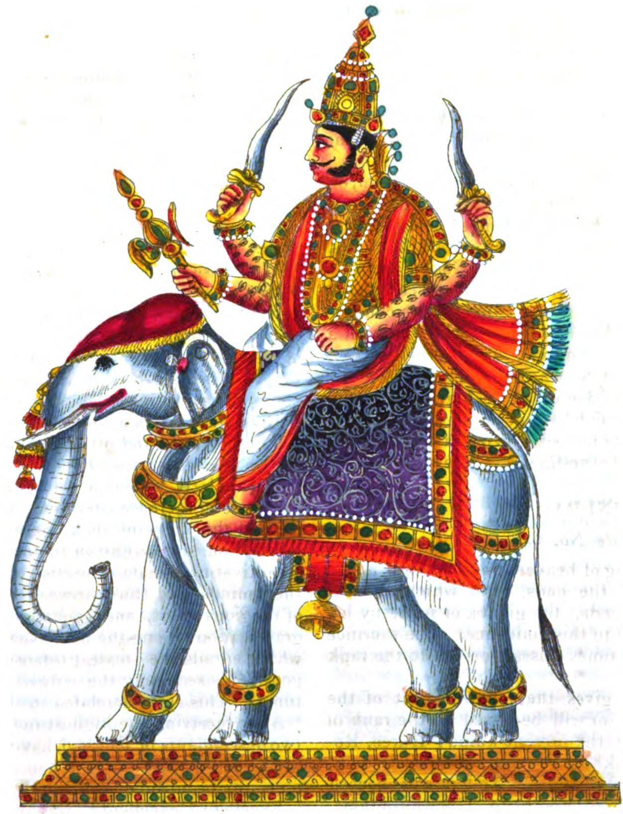 indra